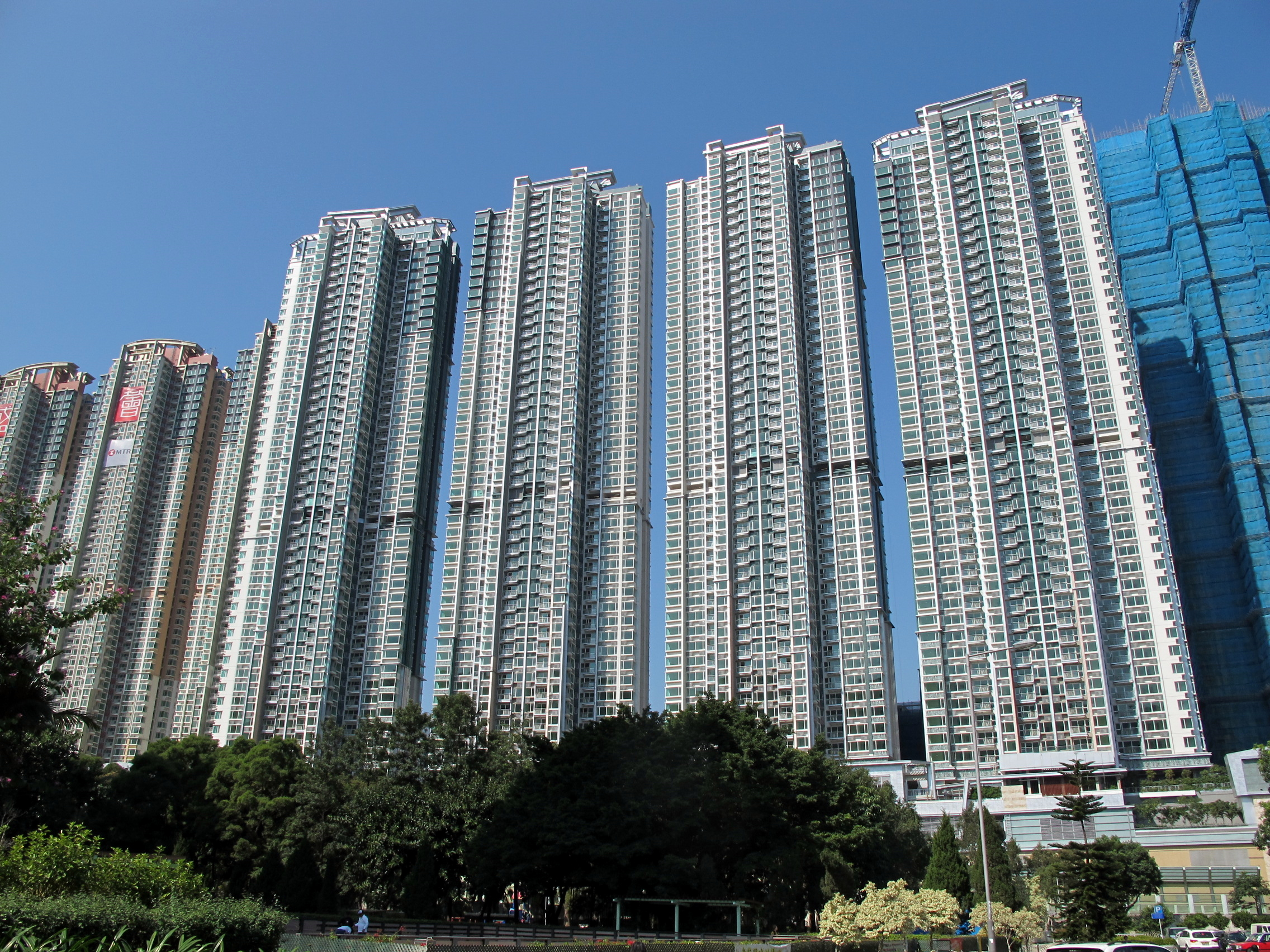 HK Festival City Phase 1 名城第一期